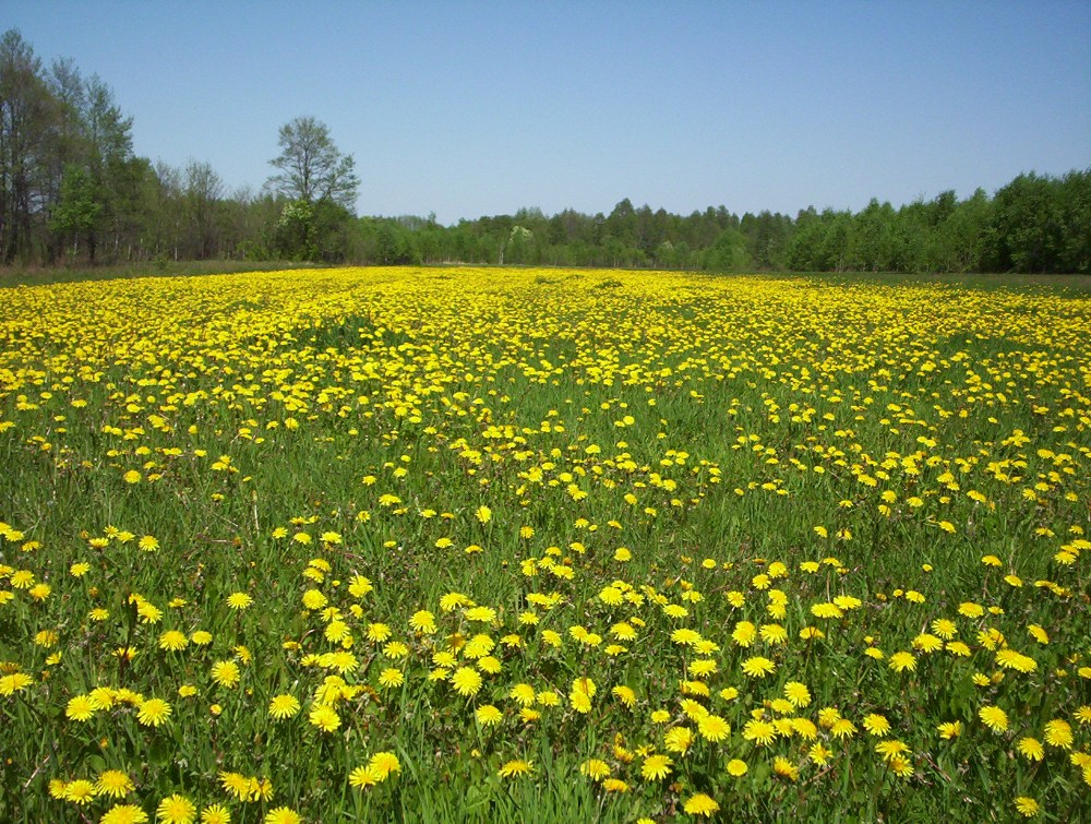 Meadow with taraxacum officinale (Masovia, Poland).